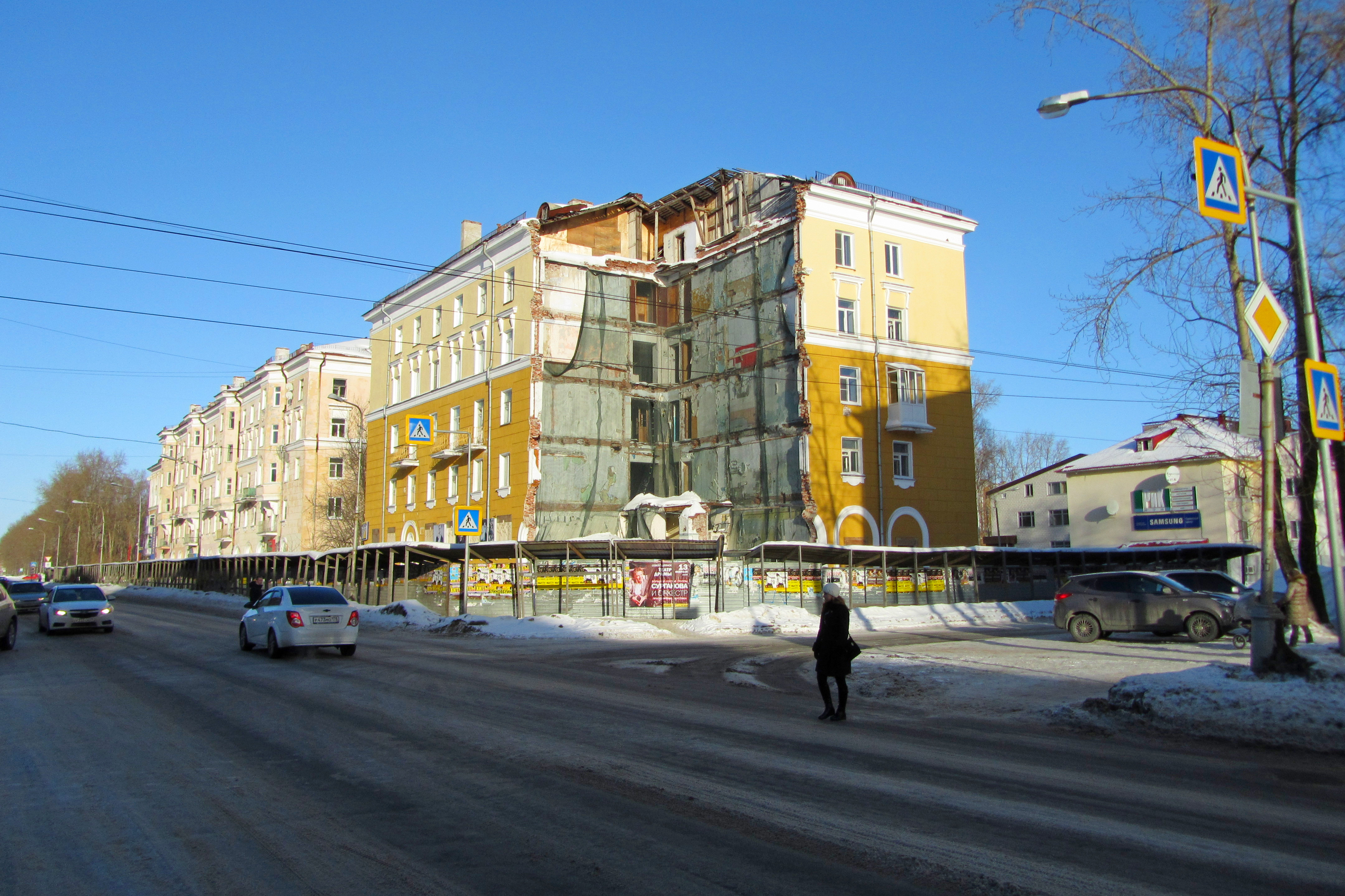 Lenina Prospekt, Severodvinsk